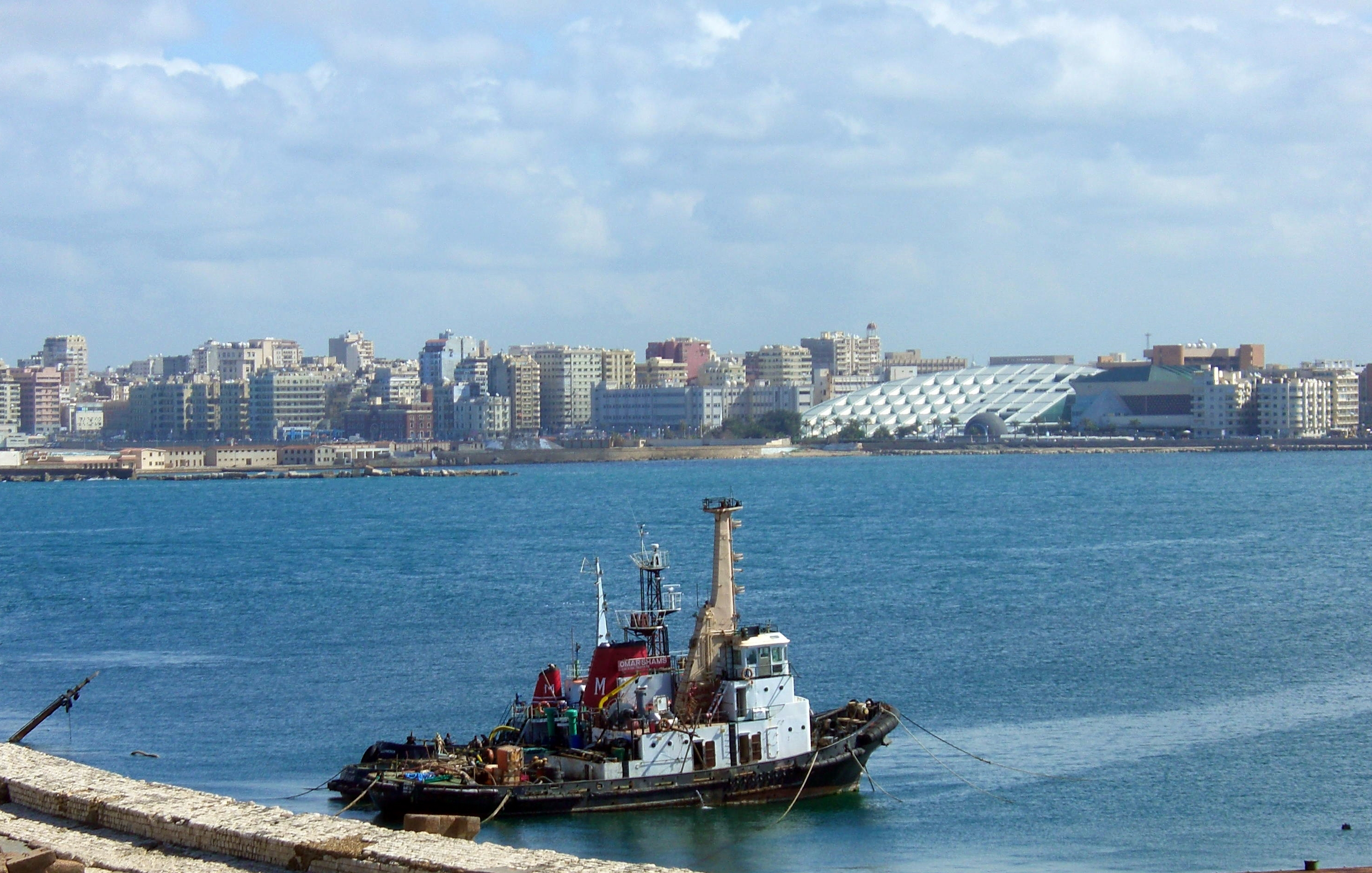 A view of Alexandria harbour in Egypt during February 2007. The new Alexandria library can be seen in the background.